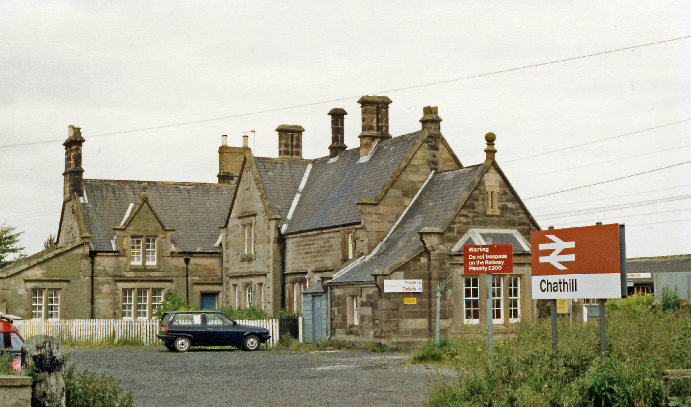 Chathill station, exterior, 1988. View northward, towards Berwick-upon-Tweed and Edinburgh etc.: ex-NER ECML. This is one of the few local stations still remaining on the ECML: until 29/10/51 it was also the main-line end of the North Sunderland Railway to Seahouses.